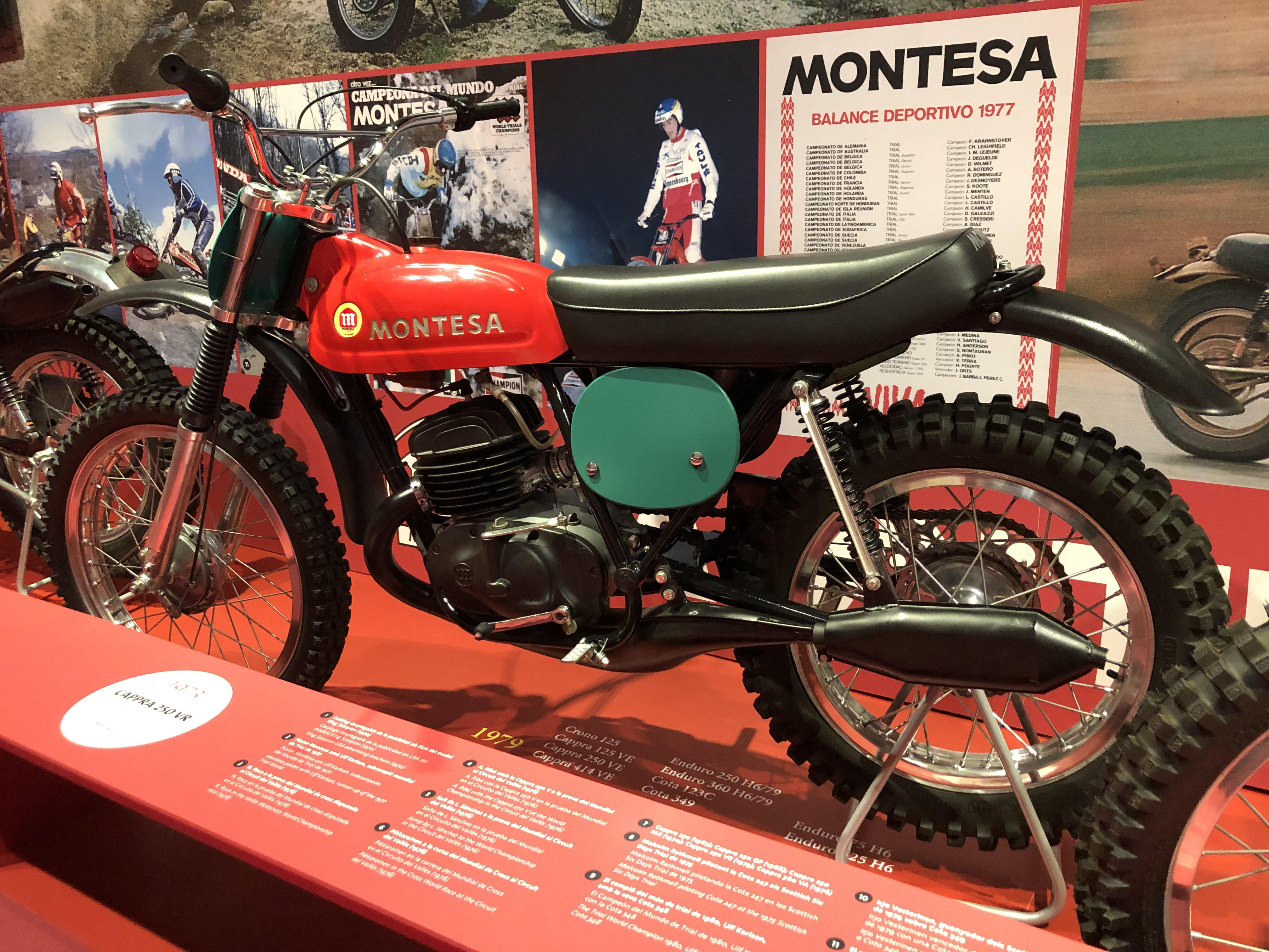 Montesa Cappra 250 VR (1973), Mod. 73M, 246.3 cc